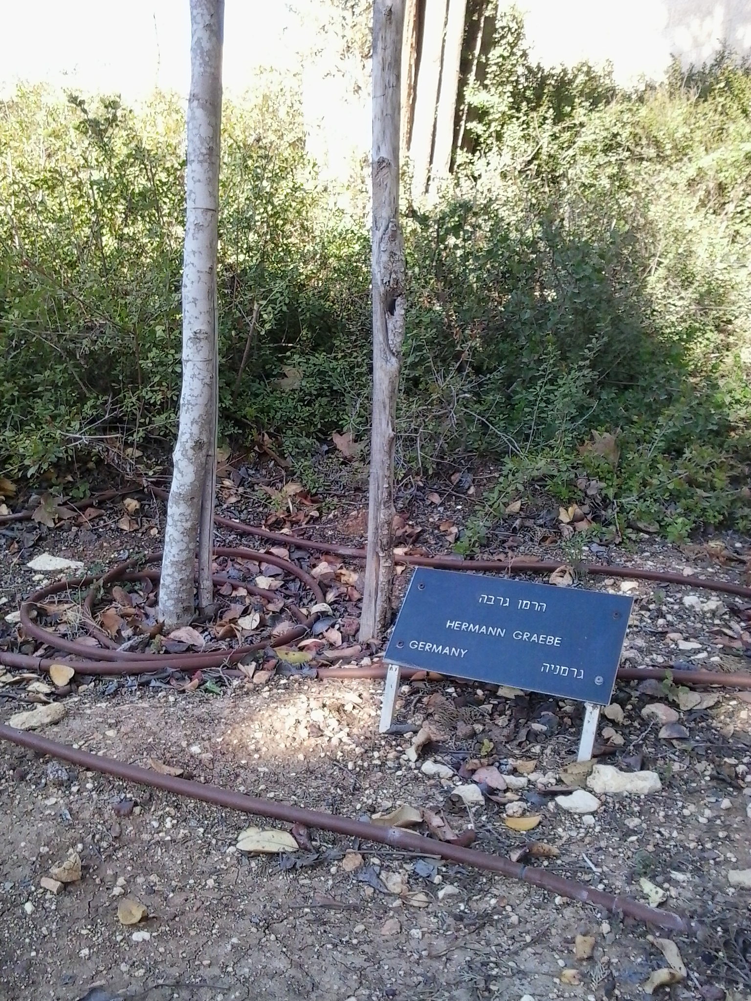 The tree planted at Yad Vashem honoring Righteous Among the Nations Hermann Gräbe